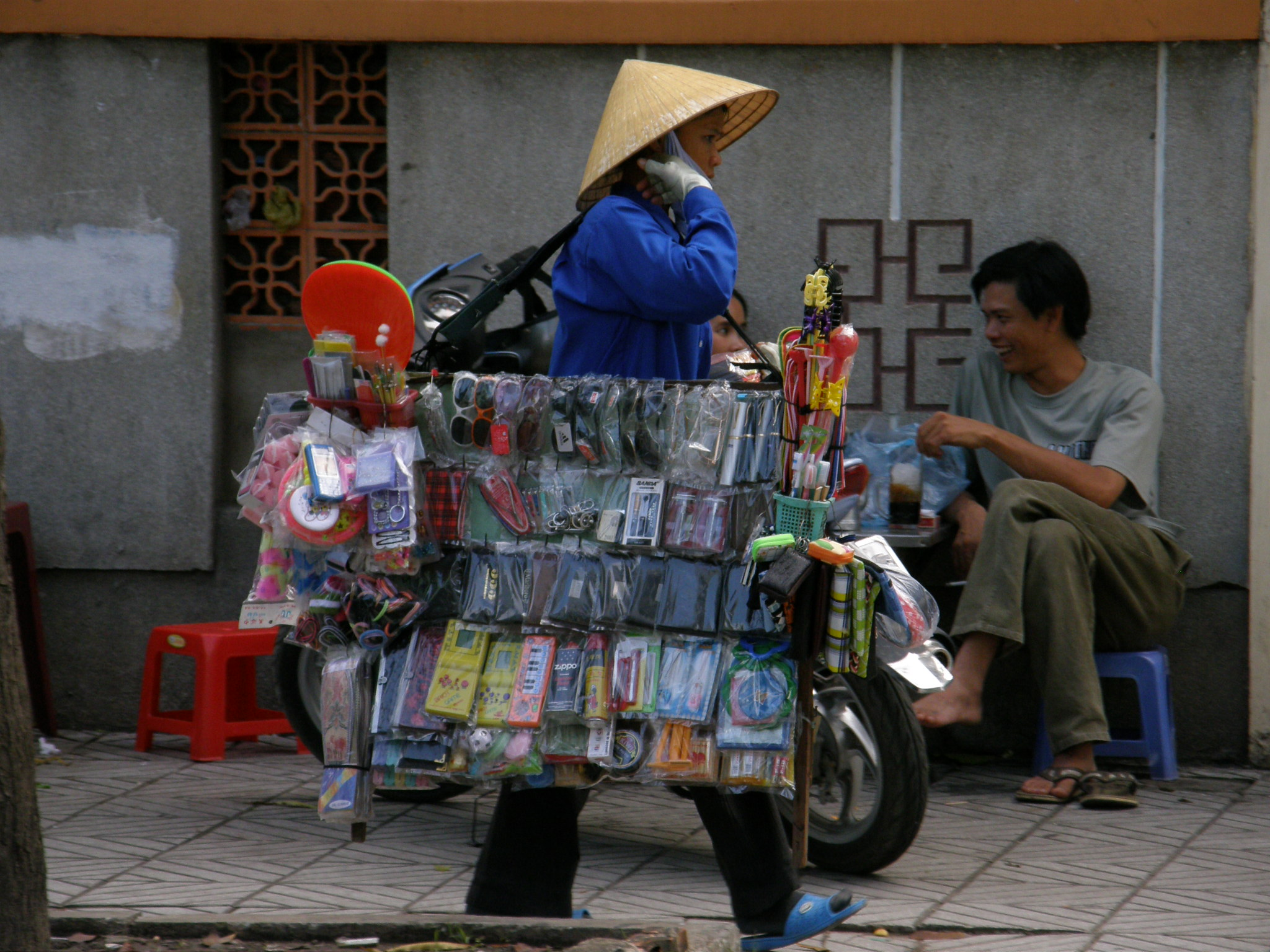 Peddler,行商人、